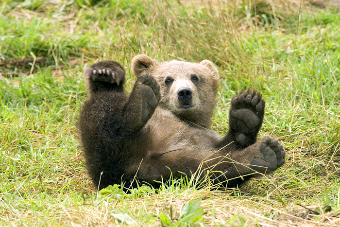 Grizzly bear (Ursus arctos) in the Kodiak National Wildlife Refuge, Alaska. Brown bear is lying on back and looking at the camera with his paws in the air.